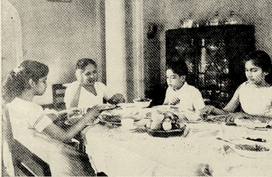 Sirimavo Bandaranaike, Prime Minister of Ceylon, 1961